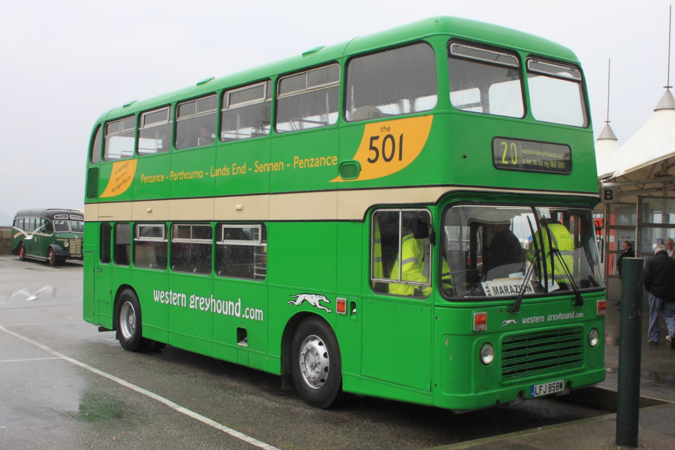 Western Greyhound's Bristol VR number 258 (registration LFJ858W) at Penzance Bus Station.